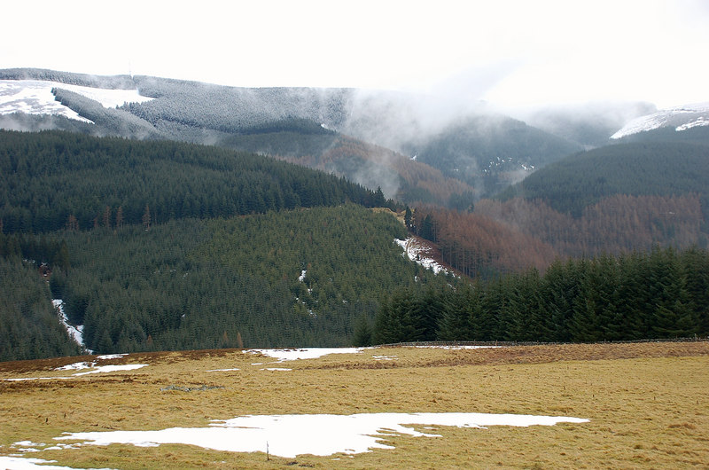 Glentress Forest from South Knowe Drifting cloud in the forest on a calm morning.